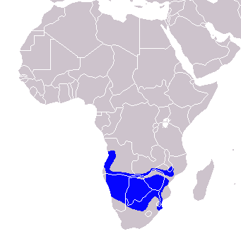 Tockus leucomelas - Distribution